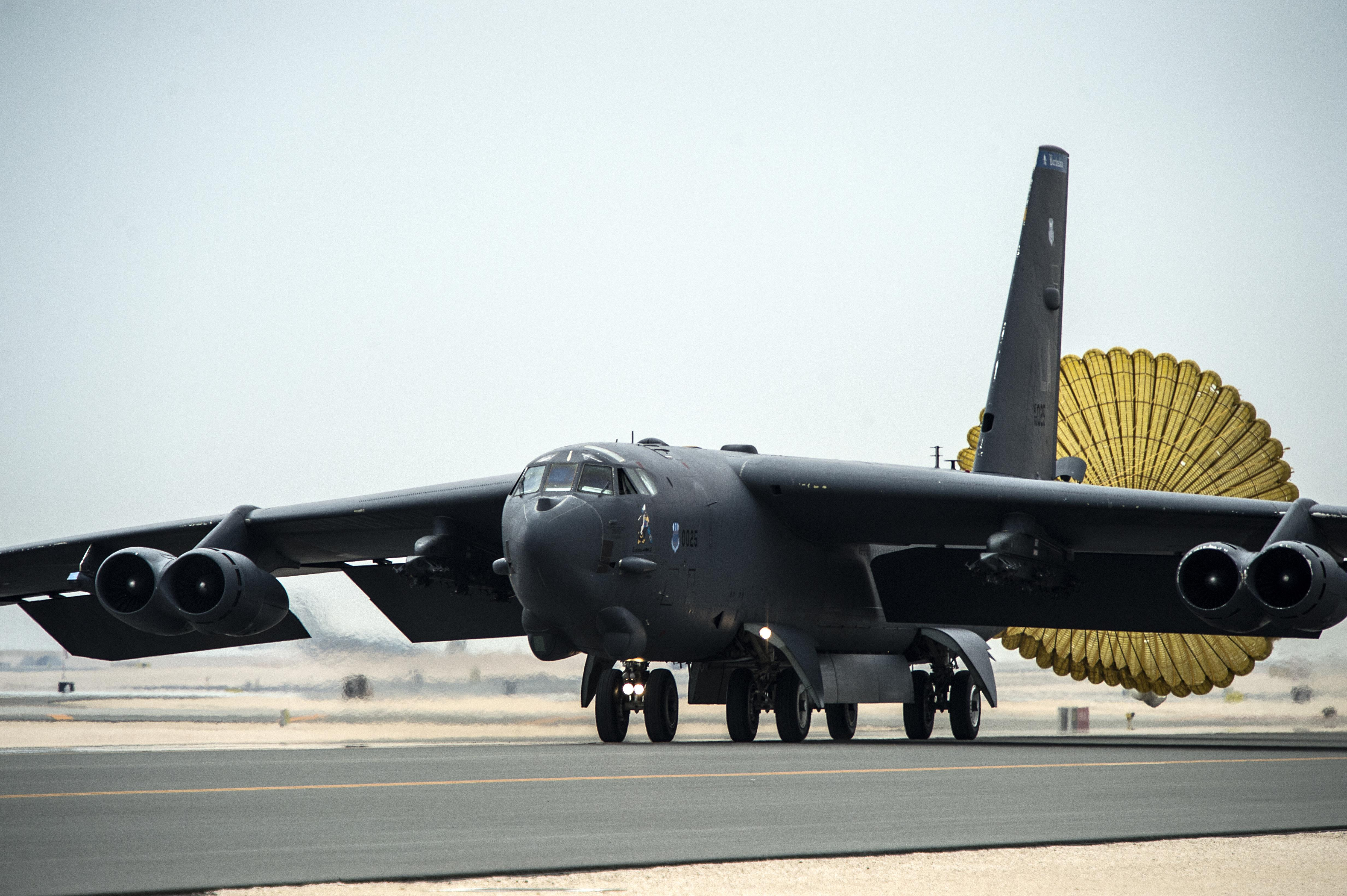 U.S. Air Force B-52 Stratofortress aircraft from Barksdale Air Force Base, La., arrived at Al Udeid Air Base, Qatar, April 9, 2016 in support of Operation Inherent Resolve, the operation to eliminate the Islamic State of Iraq and the Levant and the threat they pose to Iraq, Syria and the wider international community, and as needed in the region. The B-52 offers diverse capabilities including the delivery of precision weapons.